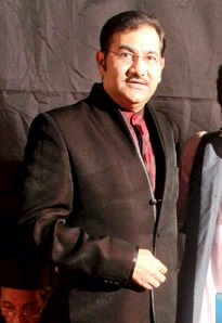 Sudesh Bhosle at 'Hridayotsav 71'